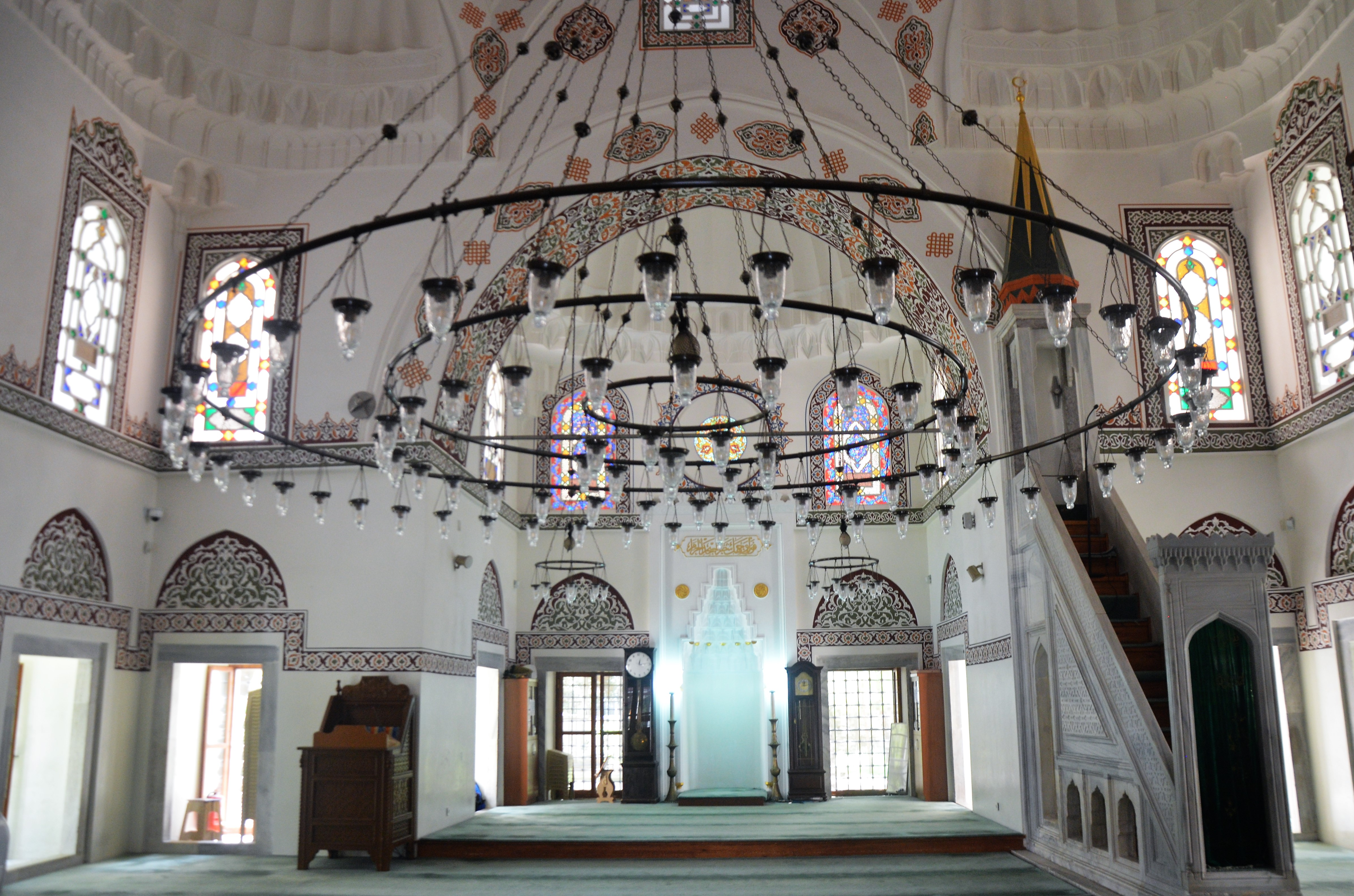 Piri Mehmet Pasha Mosque in Silivri, Istanbul Province, Turkey. The chandelier of the mosque.